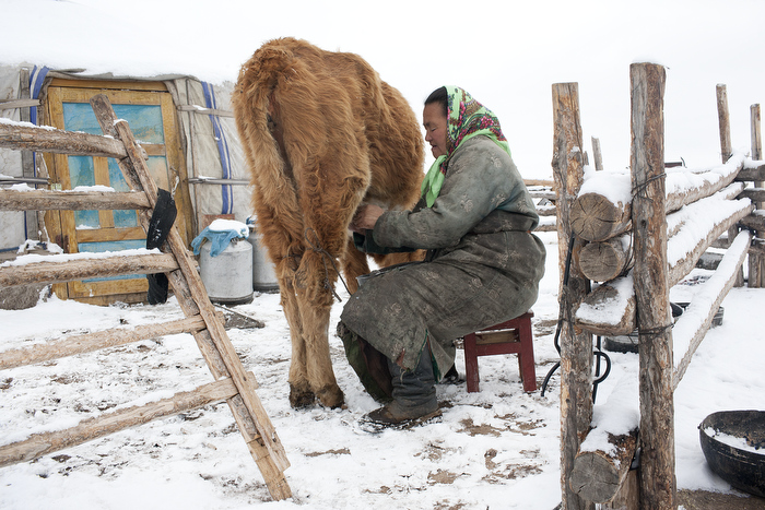 A nomad milks cows early in the morning after a snow storm.